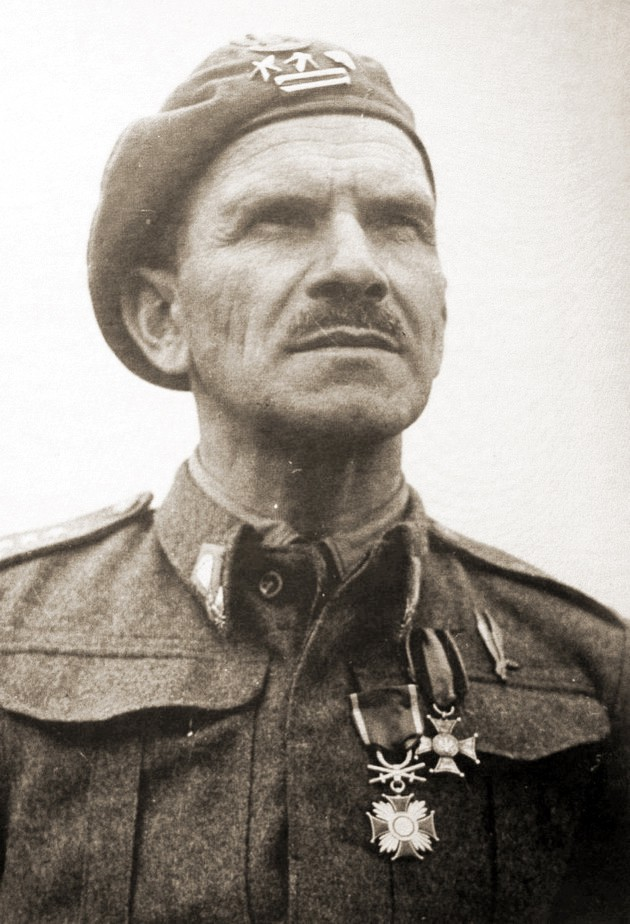 Stanisław Sosabowski (1892-1967) - General of the Polish Army